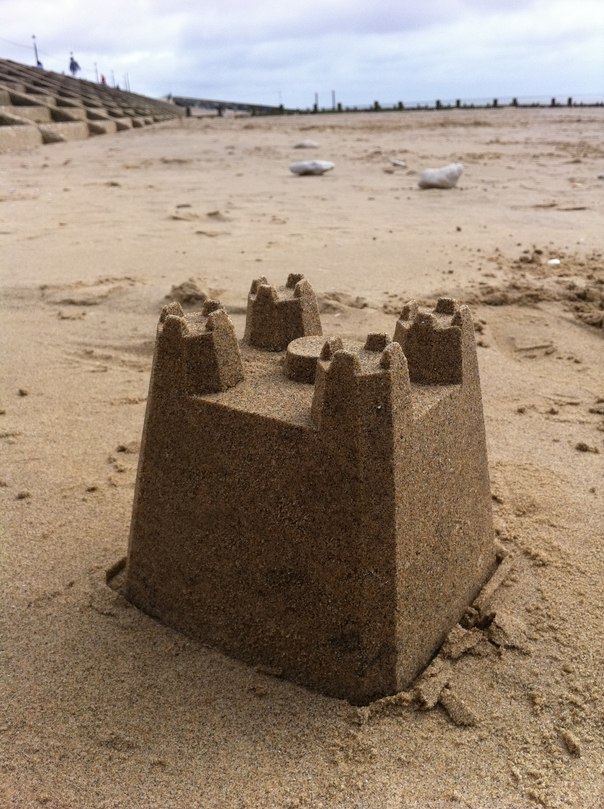 Perfect